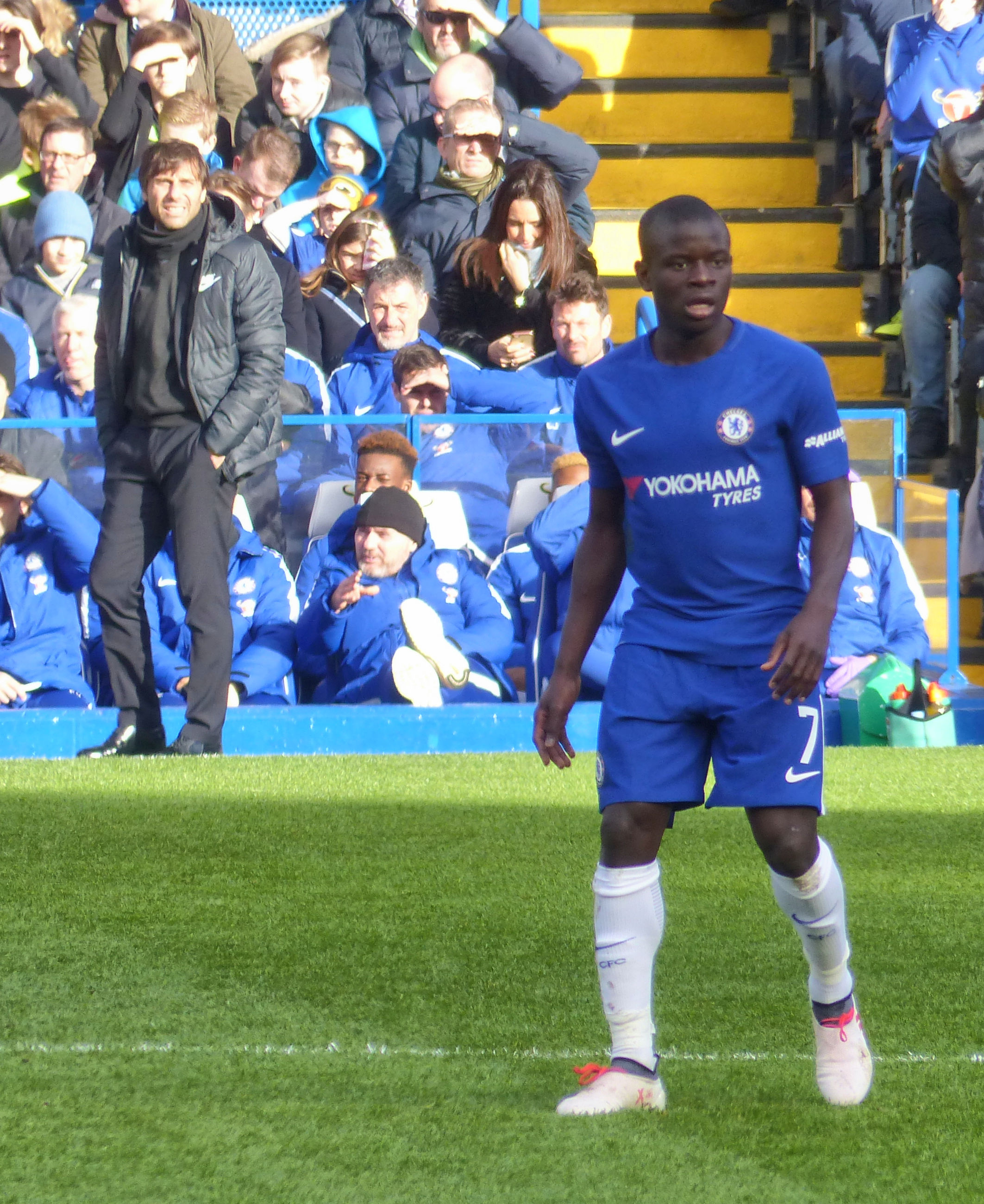 N'Golo Kante against Newcastle in the FA Cup January 28th 2018